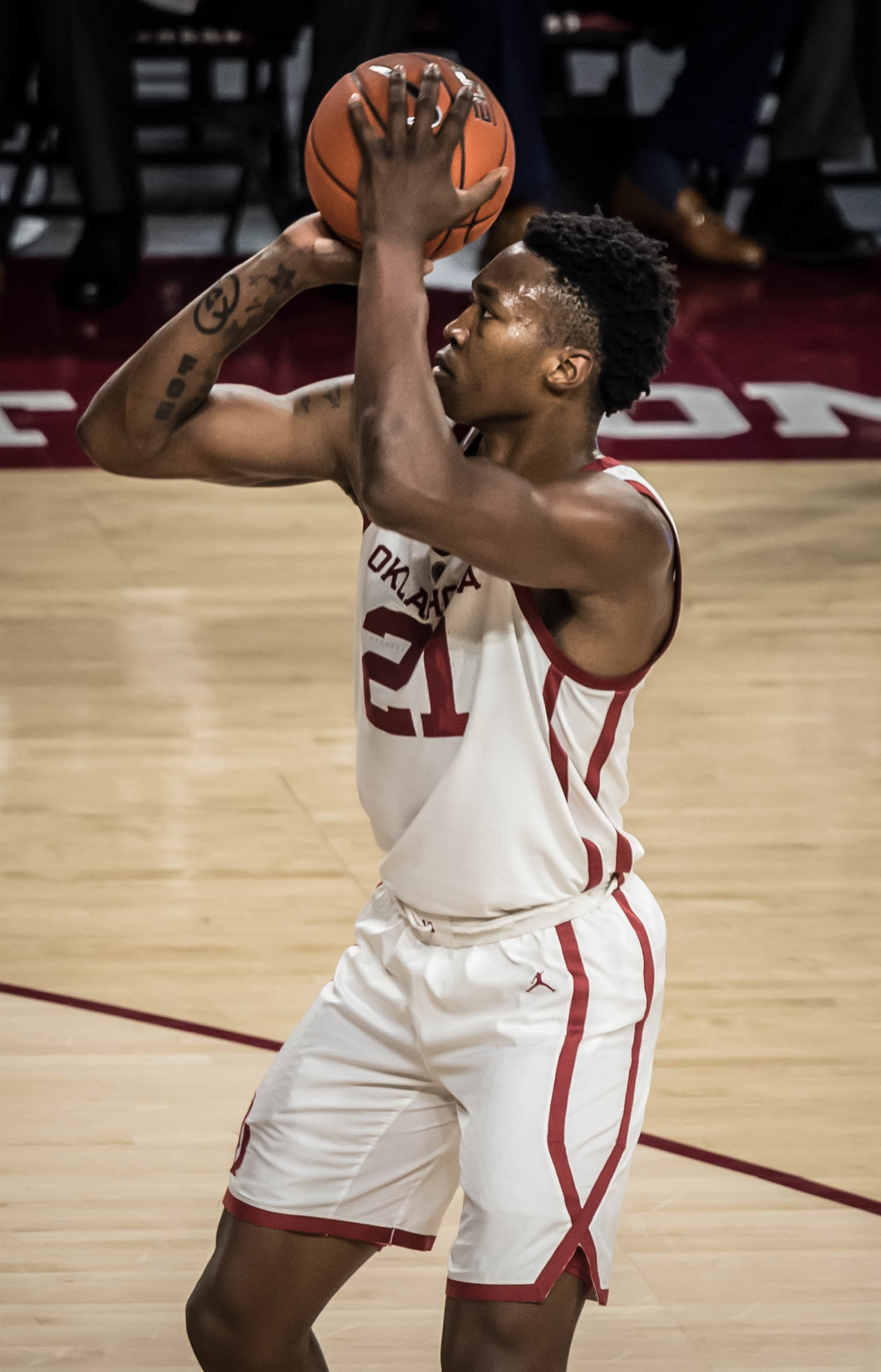 Kristian Doolittle shoots a free throw for Oklahoma in February 2019